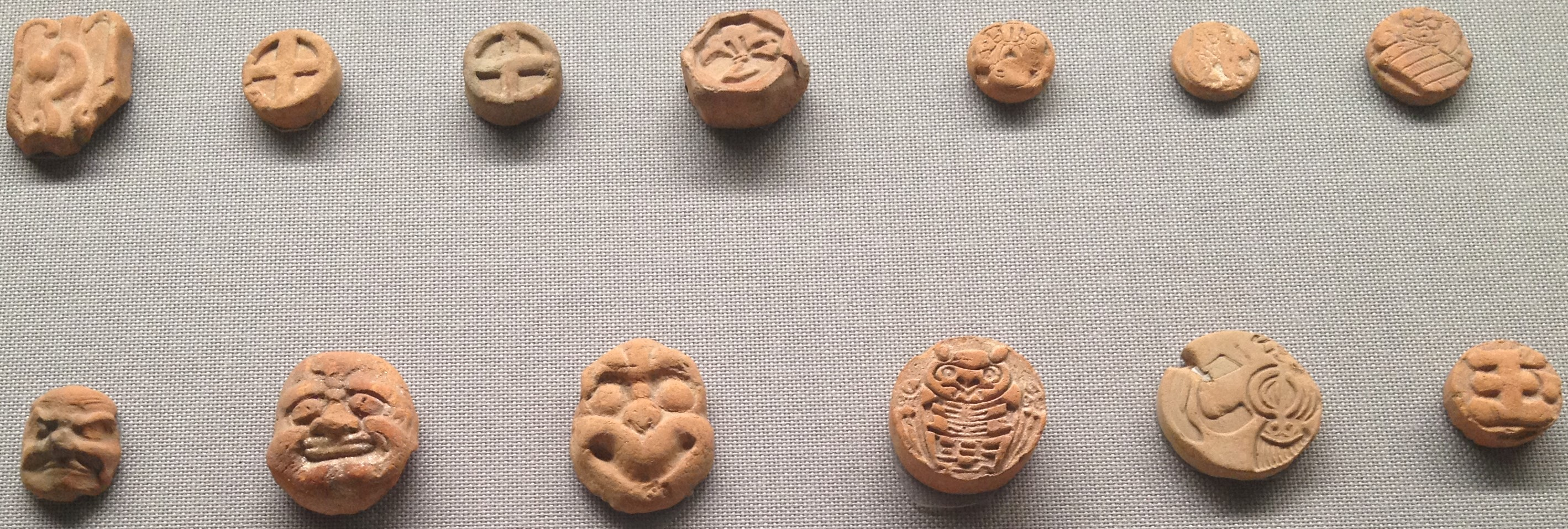 Men'uchi (面打, "face-hitting") are mass-produced clay pieces used during the Edo period of Japan. They are the precursors of menko. These are dated from the 17th to 19th centuries. Photo taken by me at the Tokyo National Museum.